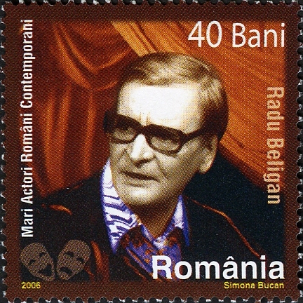 Stamps of Romania, 2006